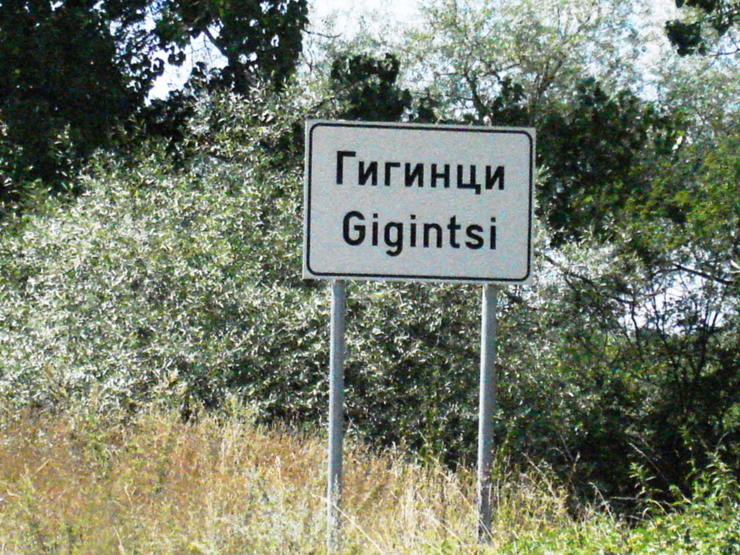 The entrance of village Gigintsi